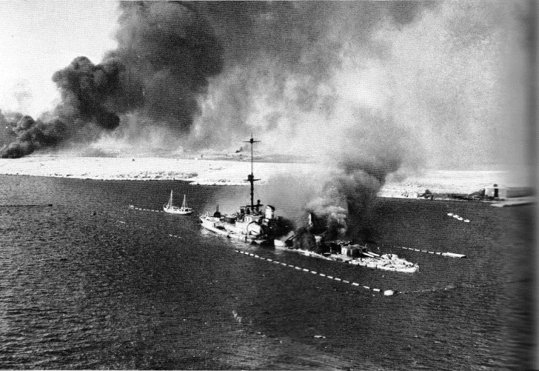 The Italian coast defence ship (former armoured cruiser), San Giorgio, scuttled and burning after air attacks at Tobruk, 22 January 1941. Note the anti-torpedo nets around the wreck.